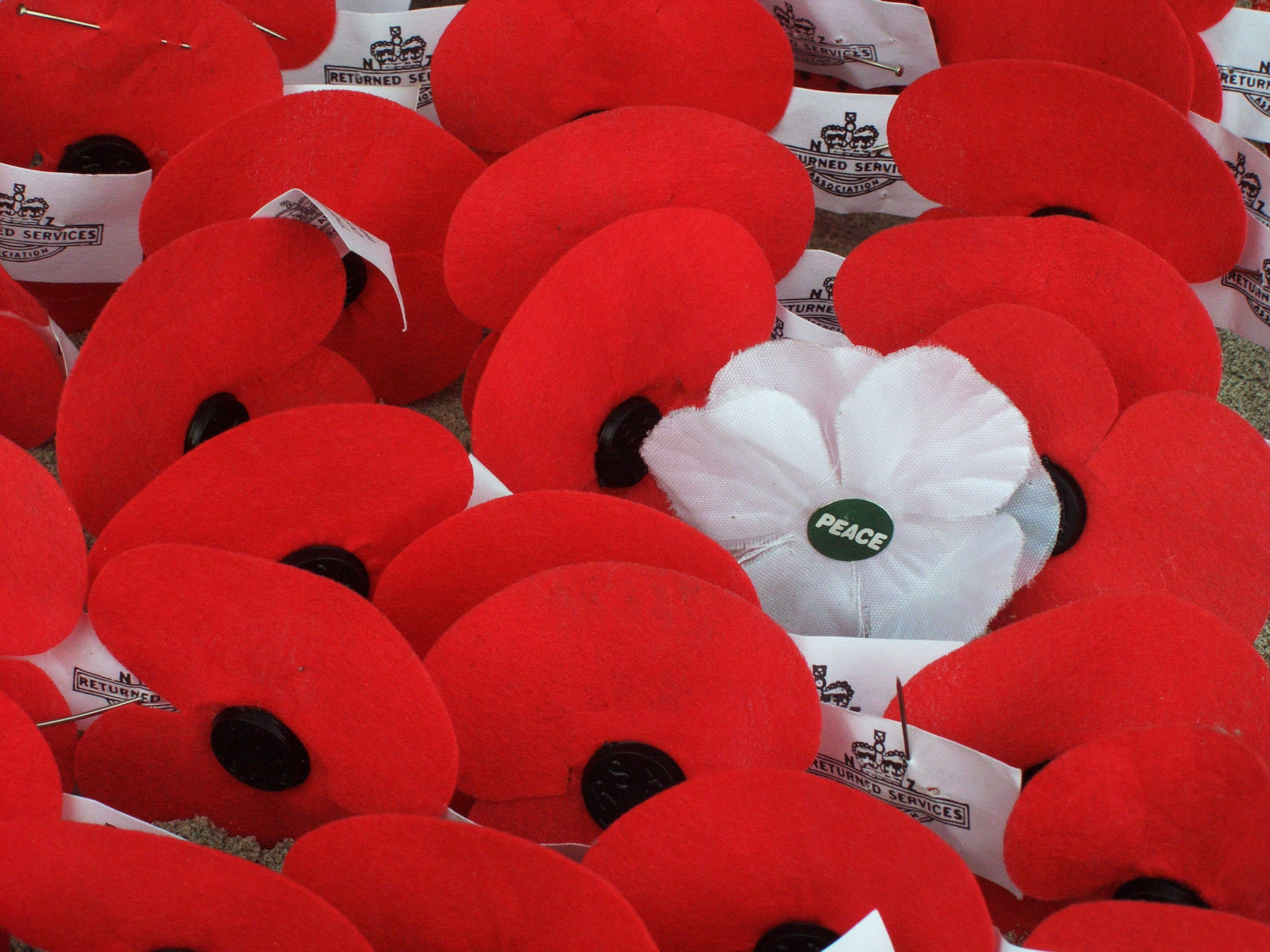 Artificial poppies left on the Waitati cenotaph on Anzac Day 2009. Most are poppies of the Royal New Zealand returned and Services Association Inc; the white one is promoted by 'White Poppies for Peace', a New Zealand peace group.